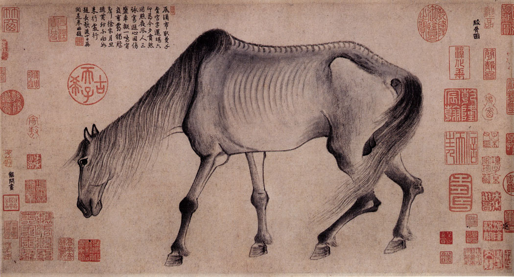 Chinese artist Gong Kai's Emaciated Horse, ink on paper handscroll, 29.9 x 56.9 cm. After Mongol Kublai Khan, leading the Yuan Dynasty, conquered the Southern Song Dynasty of China in 1279, Gong Kai remained a Song loyalist and refused to serve Kublai's government. This painting of an emaciated horse represents his own poverty-stricken conditions that he imposed on himself since he refused to serve as a government official.